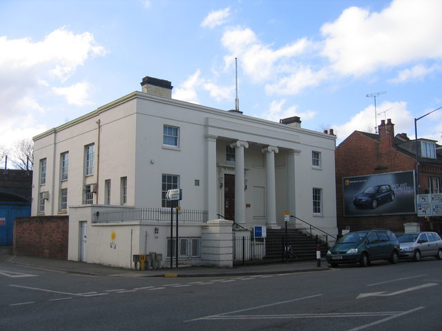 Leamington Spa's first town hall. This building on High Street was Leamington's first town hall, dating from 1831 and built to match the town's growth into a fashionable place to visit and take the waters. When the new town hall 2020 opened in 1884 the local police, who up until then had occupied a small corner of the building, took it over completely and it became Leamington Police Station. The police too have moved to new larger premises in Hamilton Terrace 107530 and today it is the Polish Club, reflecting the many Poles who came to the town as wartime refugees.